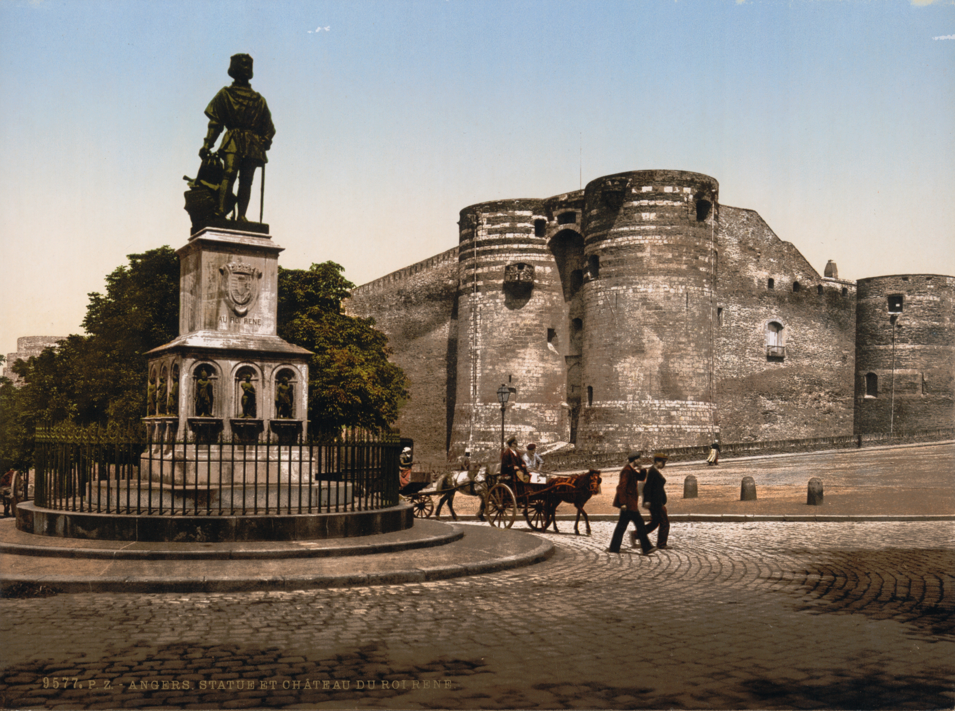 Château d'Angers around 1900